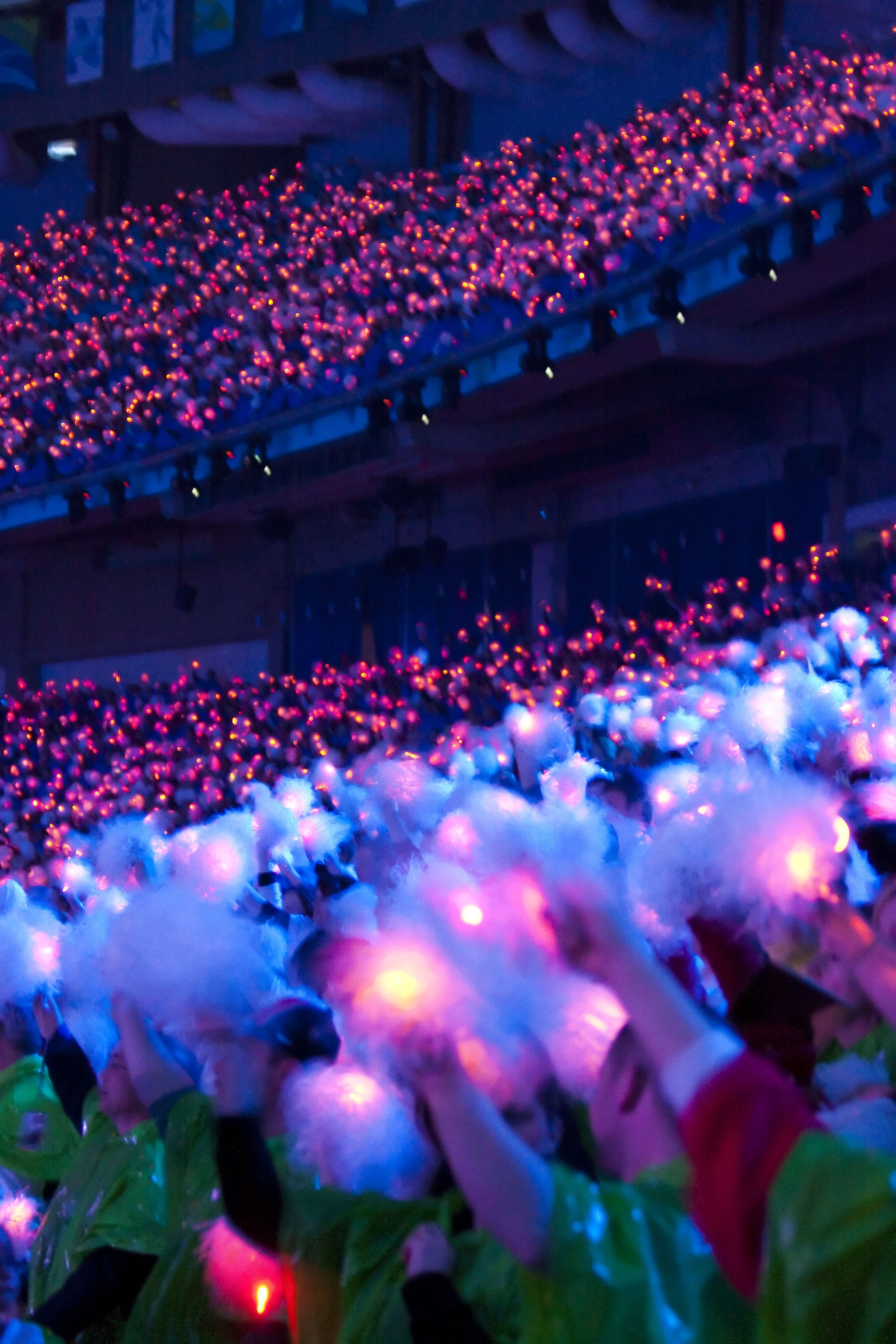 60000 spectators in blue, white and green plastic ponchos, waved lighted pom-poms at the Opening Ceremony on March 12th, at the Winter Paralympics 2010 in Vancouver, Canada.